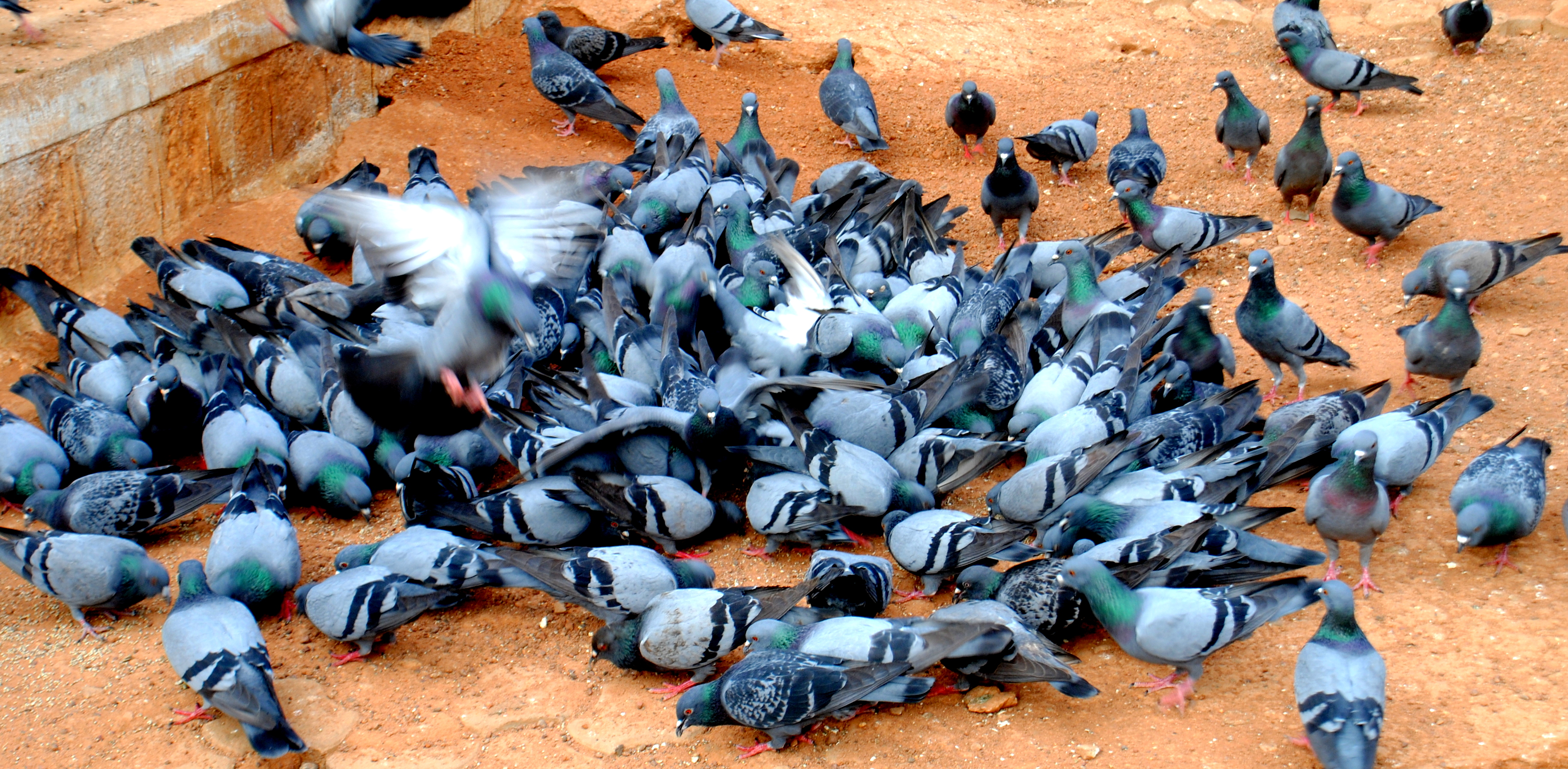 Doves fighting